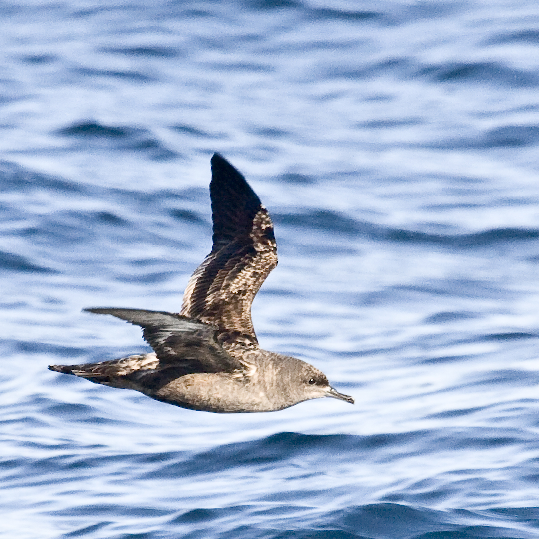 Sooty Shearwater (Puffinus griseus) - Pelagic Boat Trip - Leaders: Brian Sullivan, Brad Schram, Tom Edell - Sat. 19 Jan 2008 out of Avila, Port San Luis, CA - 2008 Morro Bay Winter Bird Festival - event publicity photo for use by the bird festival committee for future publicity, etc. is the official site; Publicity photos to be freely shared are to be posted to the Flickr Group at - photo by Michael "Mike" L. Baird Canon 5D handheld.